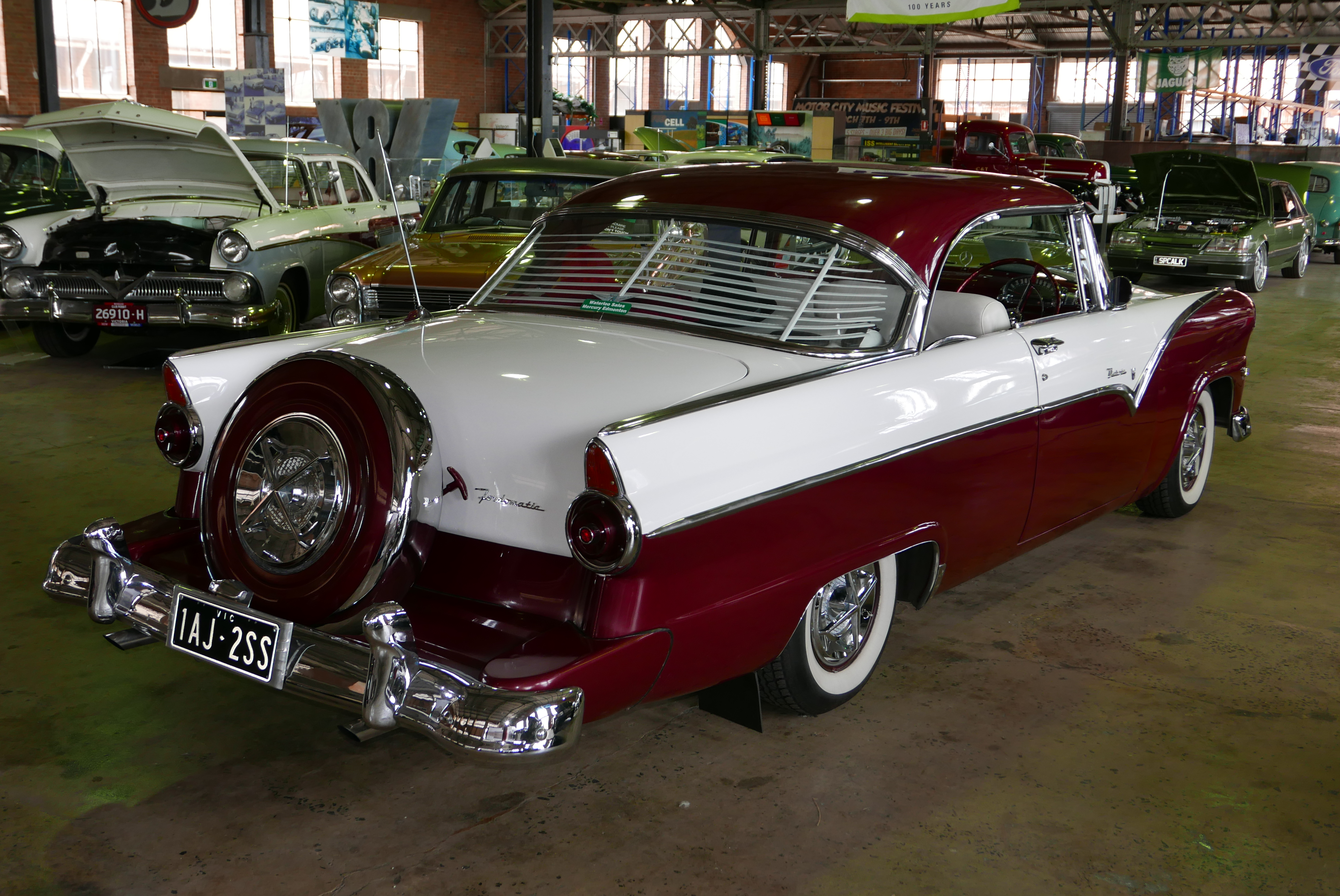 1955 Ford Fairlane Crown Victoria coupe. Photographed at the Geelong Museum of Motoring and Industry, North Geelong, Victoria, Australia. Vehicle registration enquiry results Jurisdiction Victoria Registration 1AJ2SS Chassis code BJ731560G Engine code JG35PY68995K Compliance date 1955-01 Year of manufacture 1955